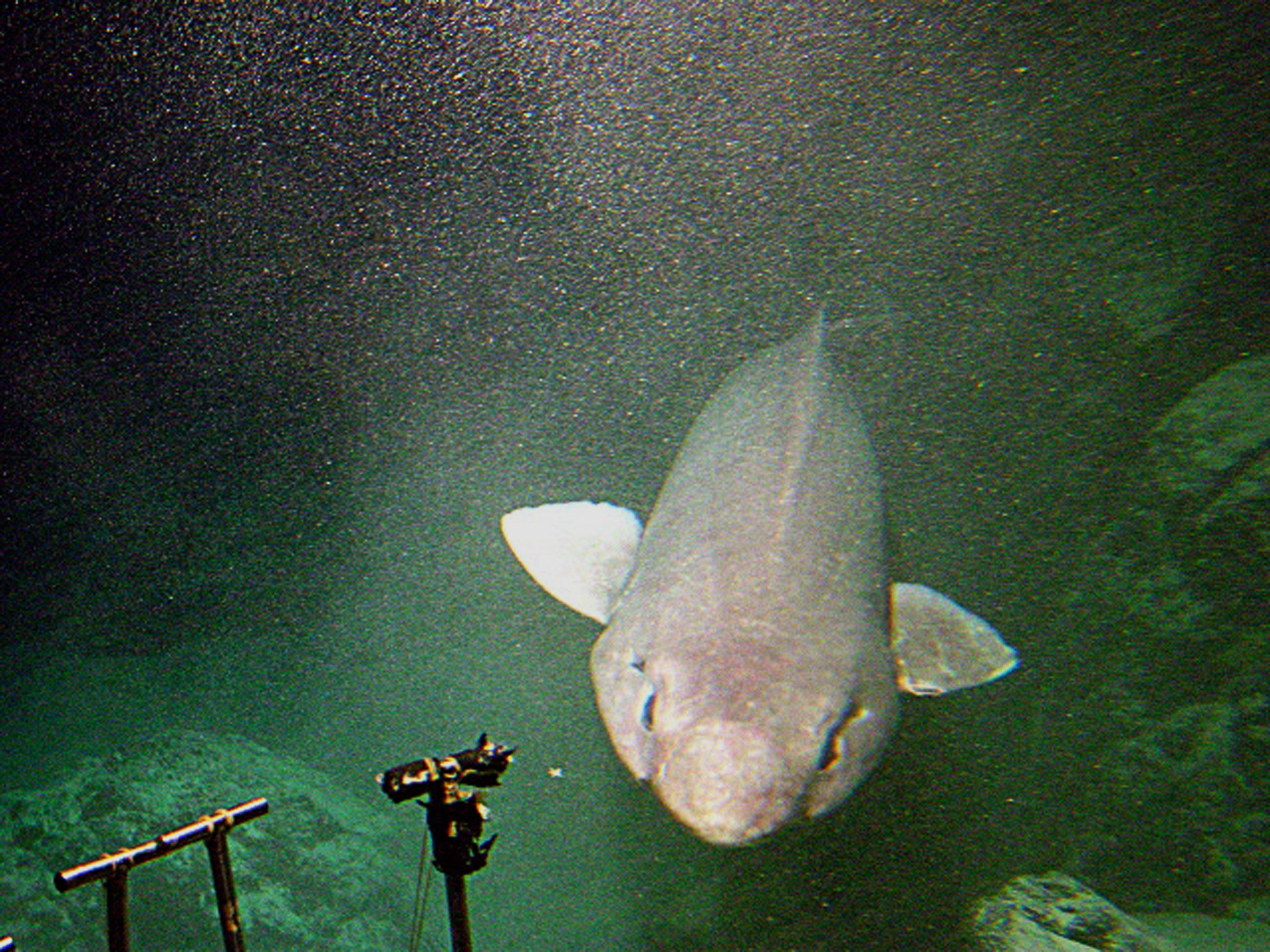 This 3 meter long false cat shark (Pseudotriakis acrages) was observed in Nihoa Canyon at 1,200 meters depth. Image ID: expl1938, Voyage To Inner Space - Exploring the Seas With NOAA Collect Location: Hawaii, Northwest Hawaiian Islands Photo Date: 2003 September Credit: Northwestern Hawaiian Islands Expedition 2003